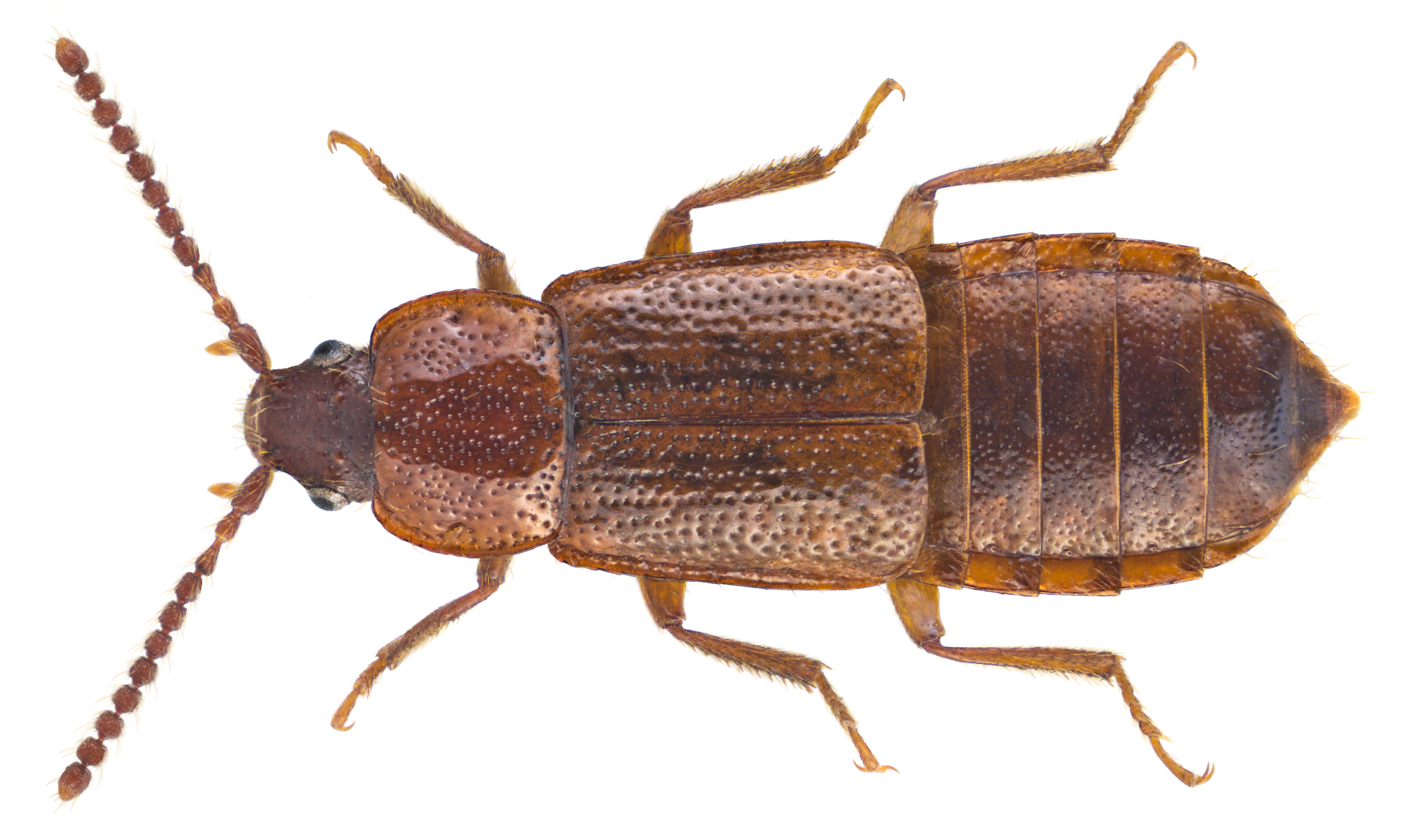 Family: Staphylinidae Size: 4,7 mm (3,8 to 6,0 mm) Distribution: transpalaearctic Ecology: in leaf litter Location: Germany, Bavaria, Upper Franconia, Selbitz leg.det. U.Schmidt, 9.XII.1999 Photo: U.Schmidt, 2015